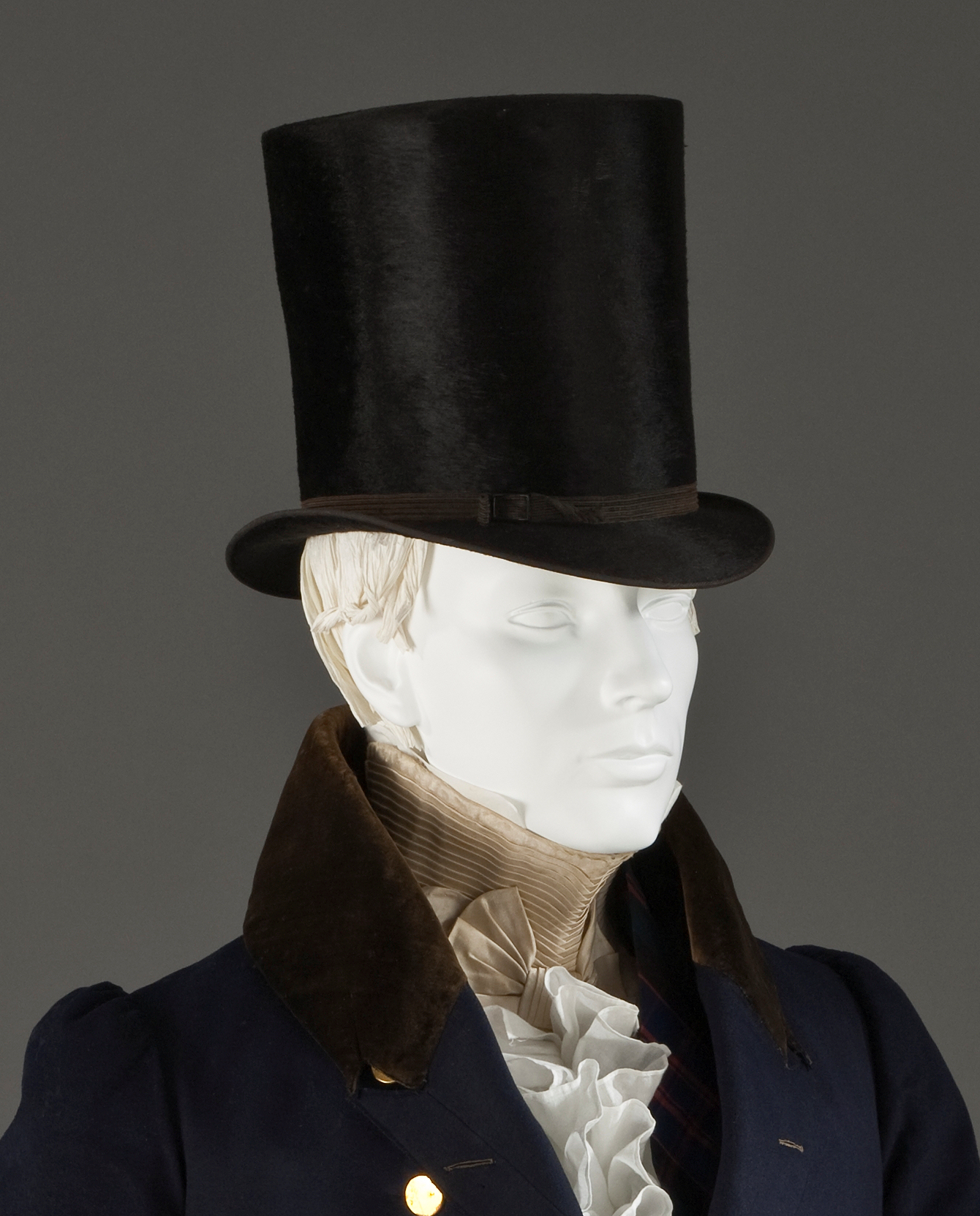 Man’s tailcoat, probably England, 1825-1830. Stock, Boston, Massachusetts, c. 1830. Top hat, Paris, c. 1815